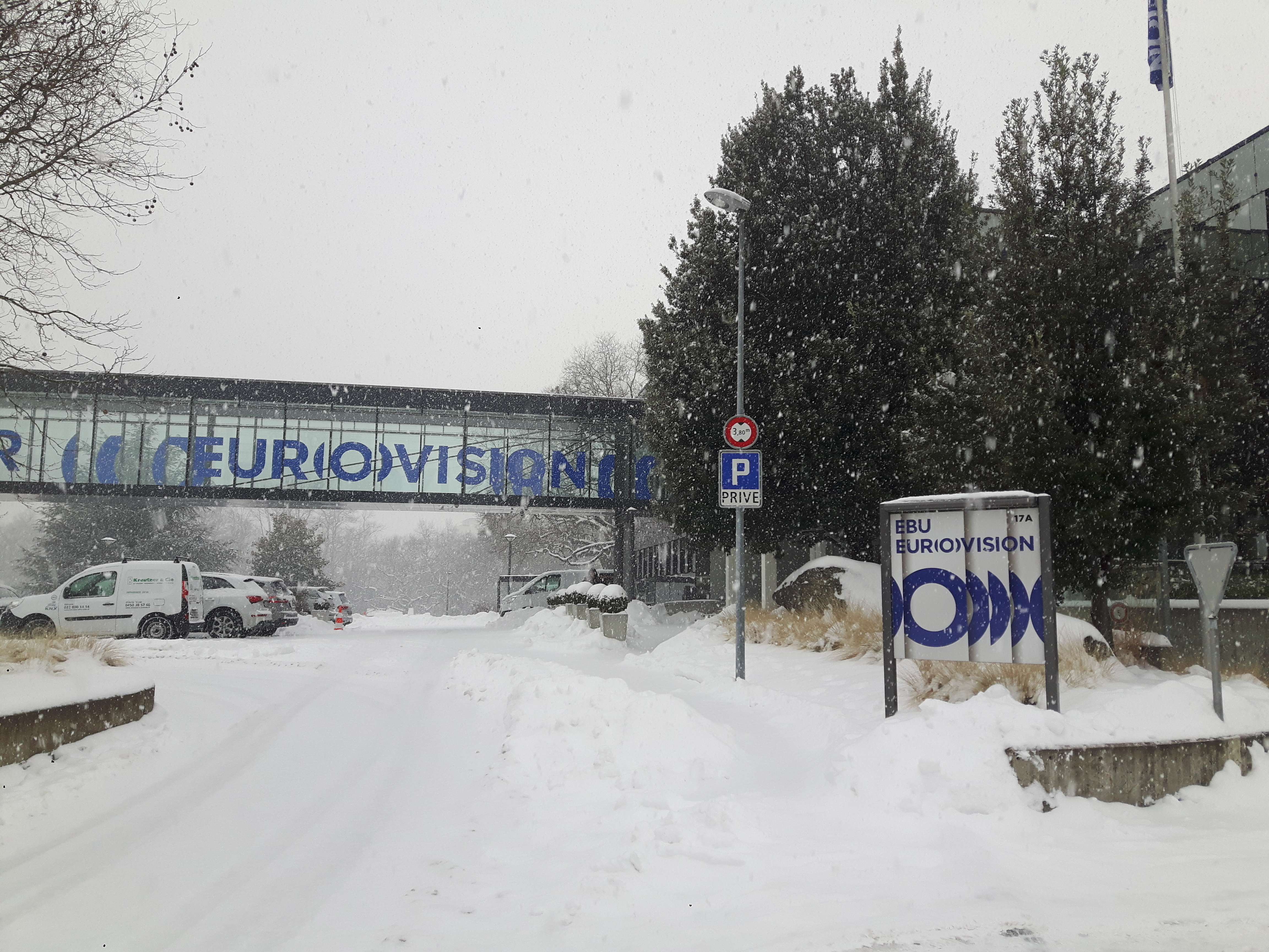 Gateway between the 2 Buildings of the European Broadcasting Union Le Grand-Saconnex- Switzerland